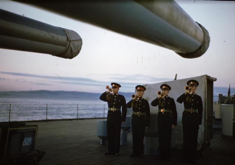 On Board HMS King George V, November 1942 Four Royal Marine buglers at sunset lowering the flag on board HMS KING GEORGE V.